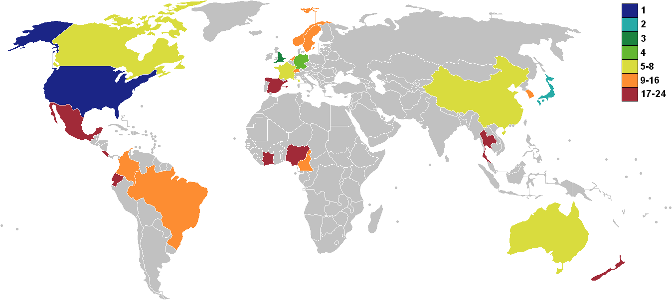 2015 FIFA world cup qualified teams